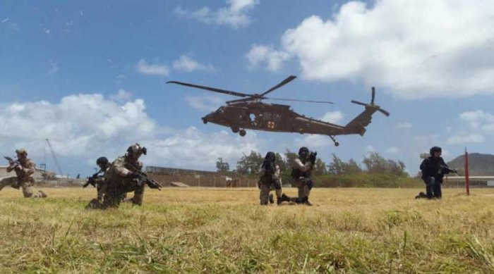 US Special Forces from the 1st Battalion and the 1st Special Forces Group (Airborne) conduct a joint exercise with the National Security Guard. Note: The source of this image provided below clearly states that this image is the work of US Consulate in India. The source mentioned is a well known news outlet called Deccan Herald and, therefore, can be trusted.